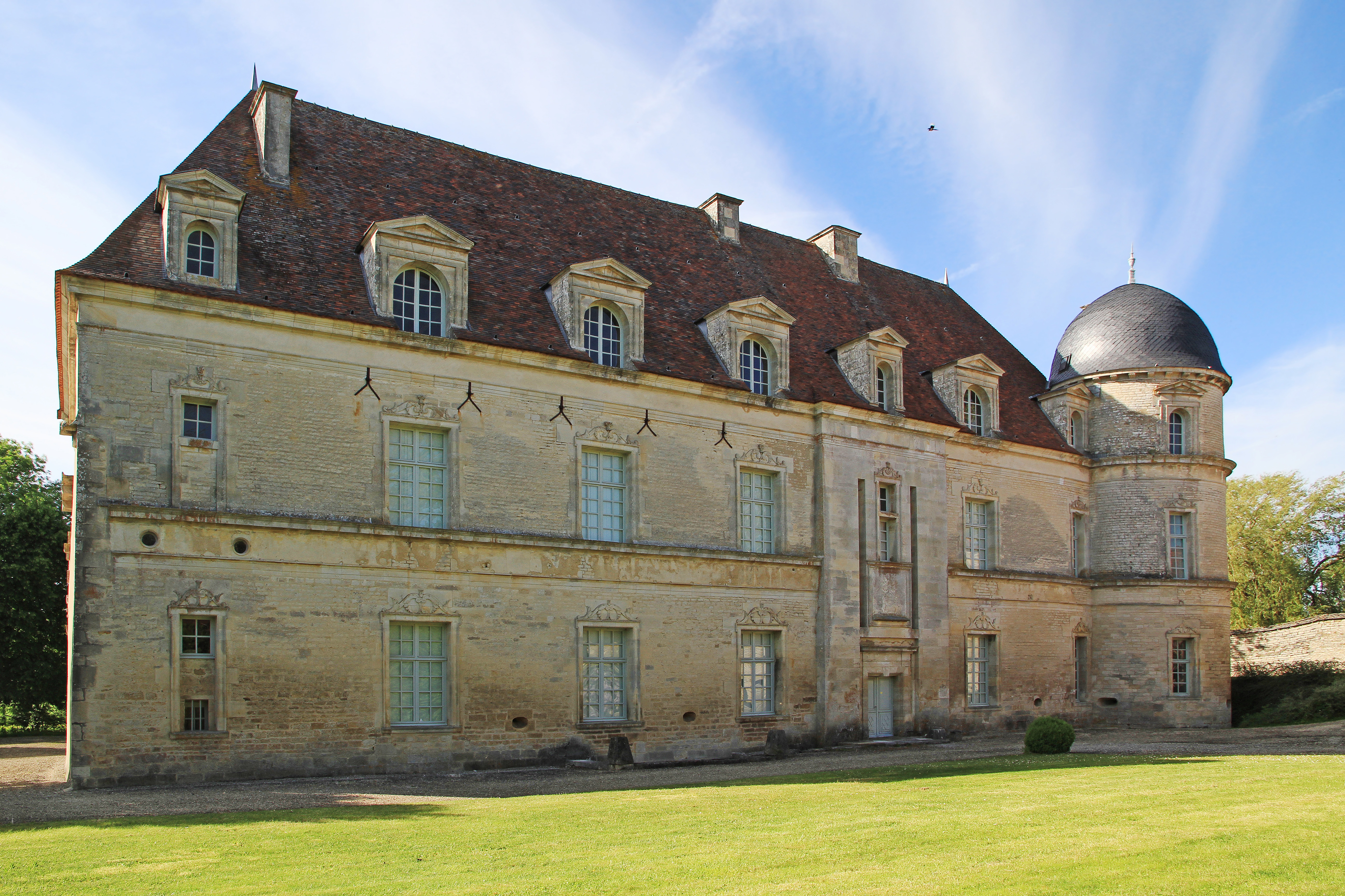 Castle of Jours-lès-Baigneux, south-east side